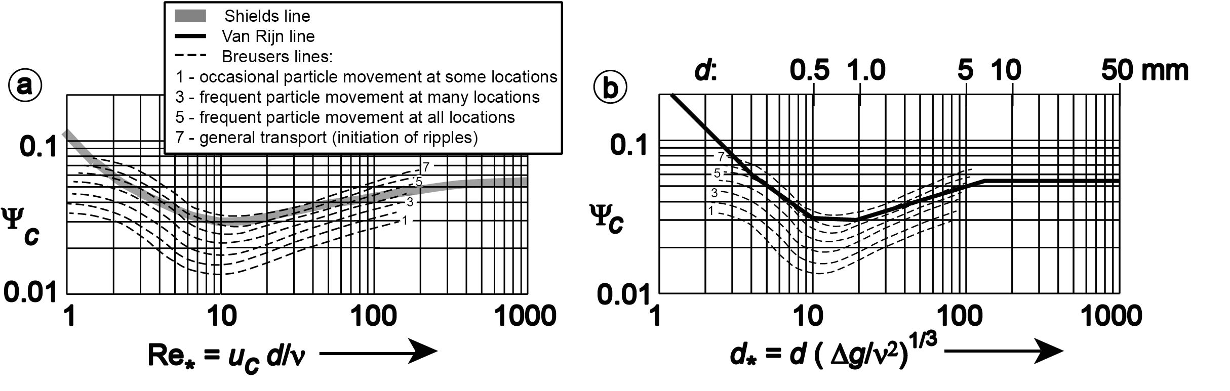 Shields diagram (as well as the Van Rijn representation) including the various stages of transport as defined by Breusers